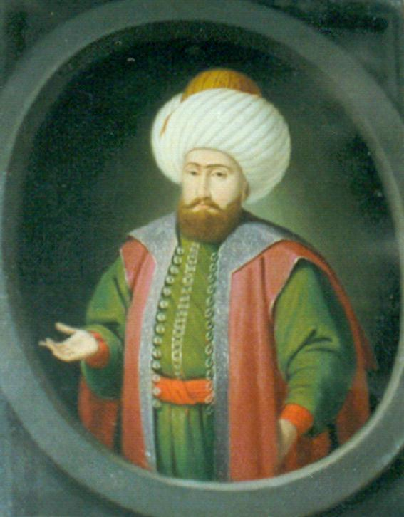 Portrait of Murat I, Sultan of the Ottoman Empire. The portrait is displayed along with other portraits of Ottoman sultans on the walls of the mirror hall of the Manyal Palace Museum.